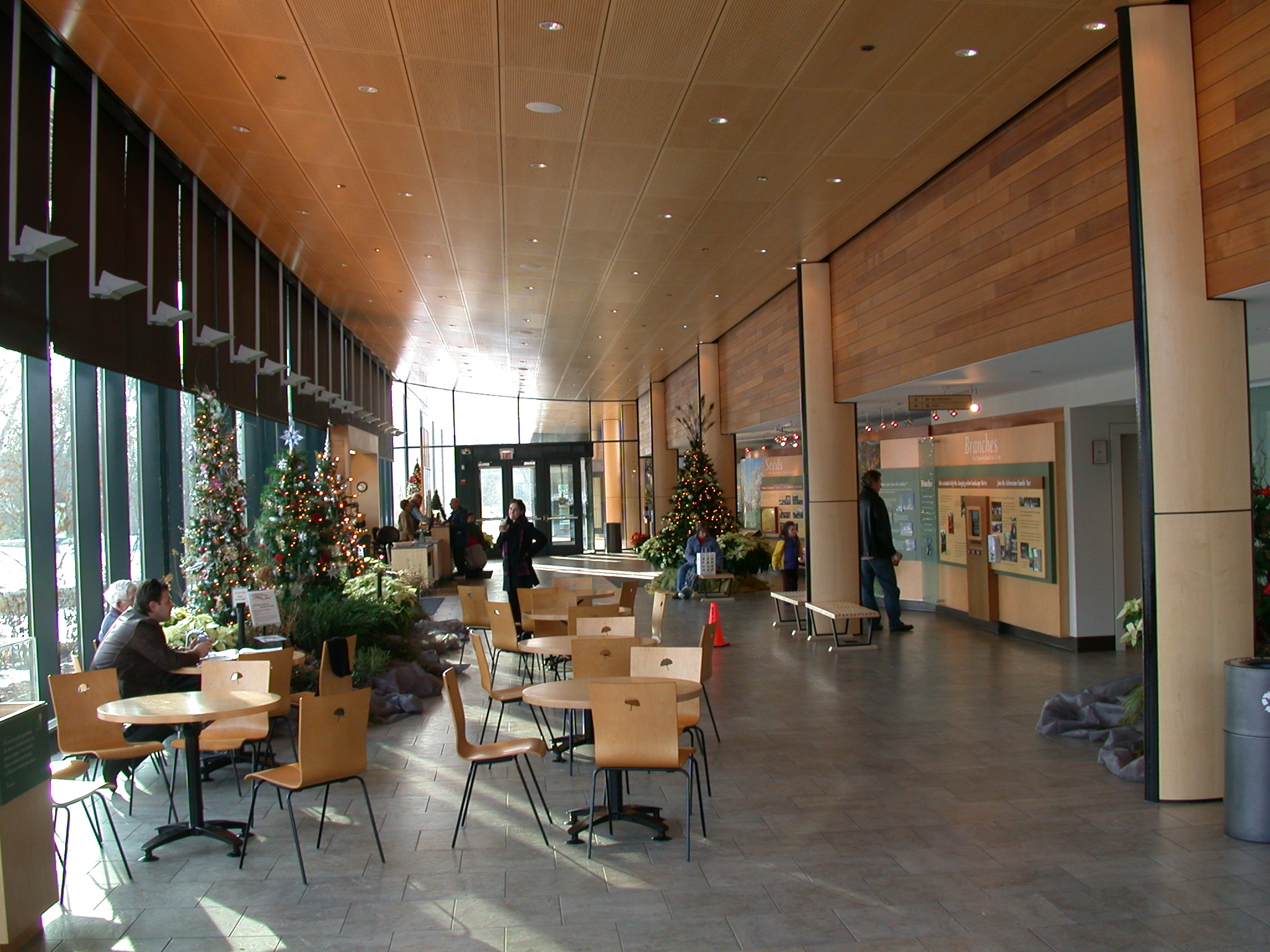 Interior of visitor center at Morton Arboretum.